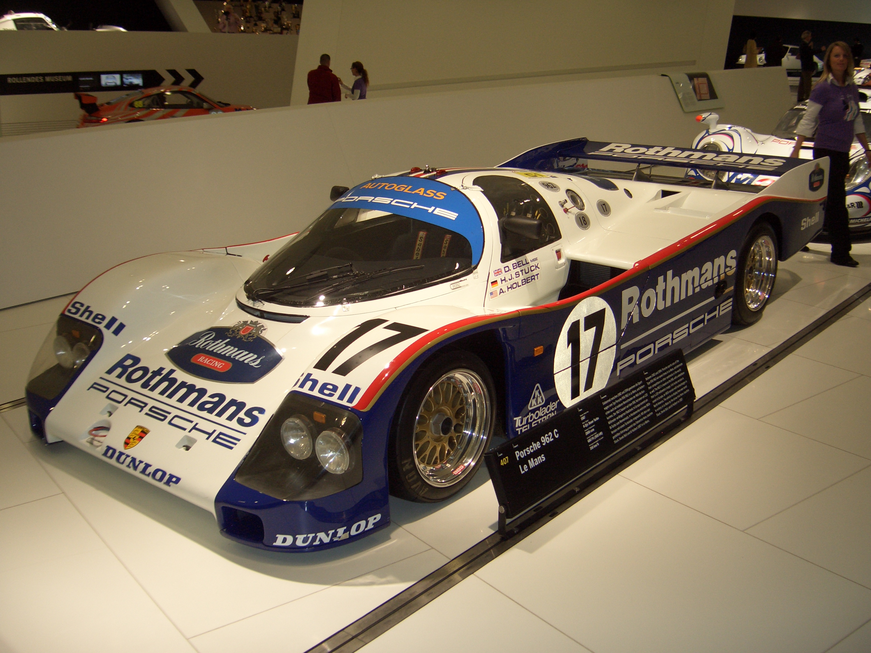 Porsche 962C Le Mans 1985 frontleft - seen at PORSCHE MUSEUM in Stuttgart, Germany.